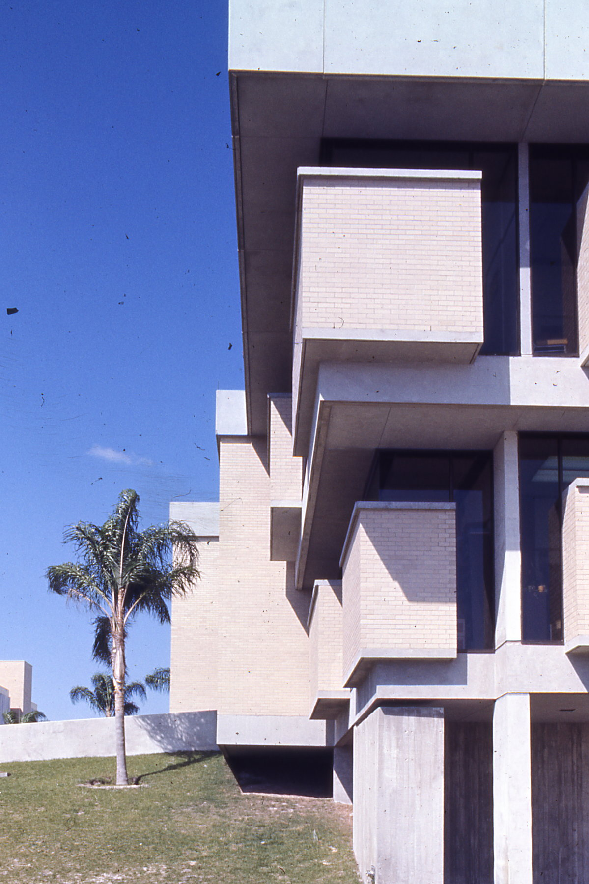 The CBA Building at the University of South Florida